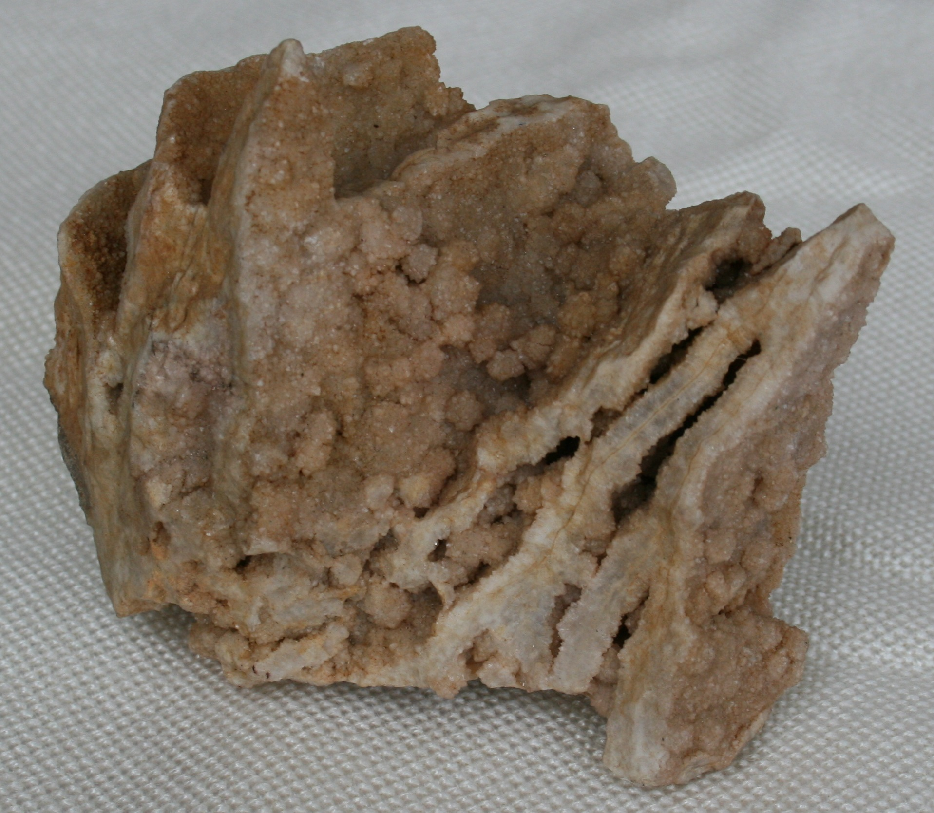 "Star quartz", unique form of quartz. Found on hill Straznik by village Perimov (Czech republic). This stone come from collection of Mr. and Mrs. Valek.